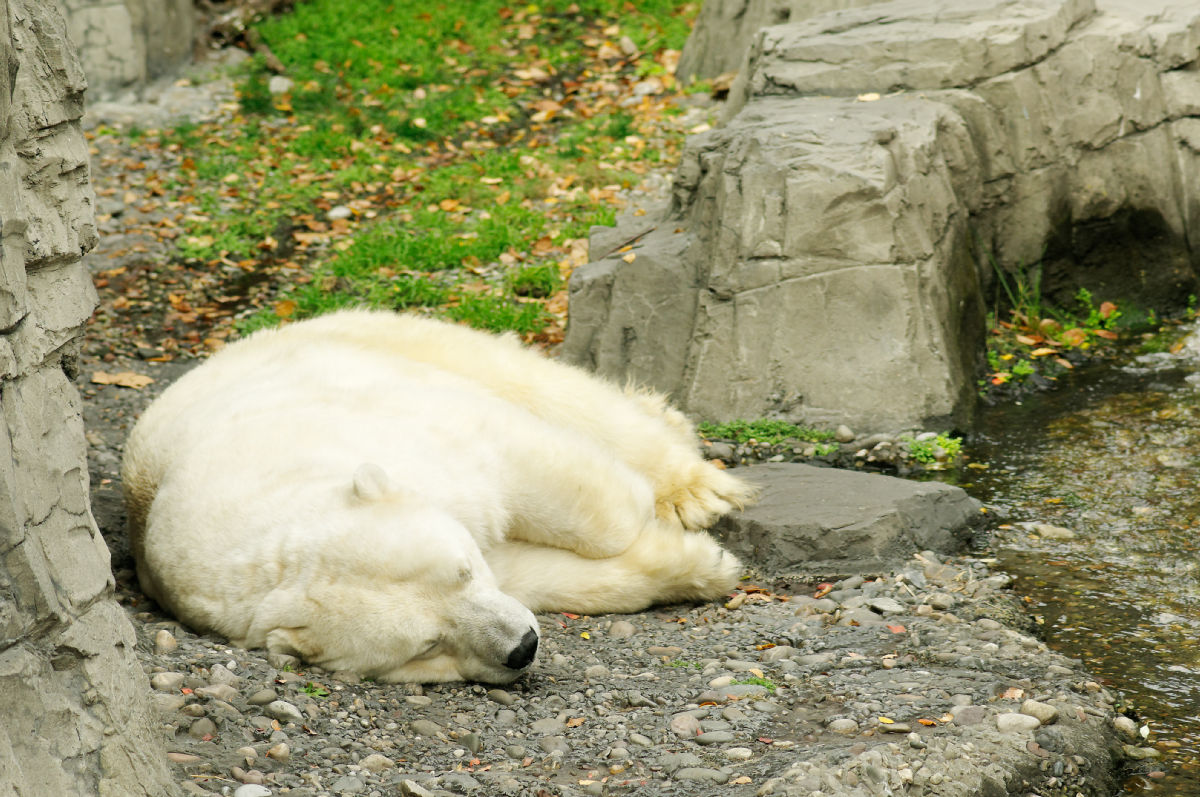 Gus in 2011